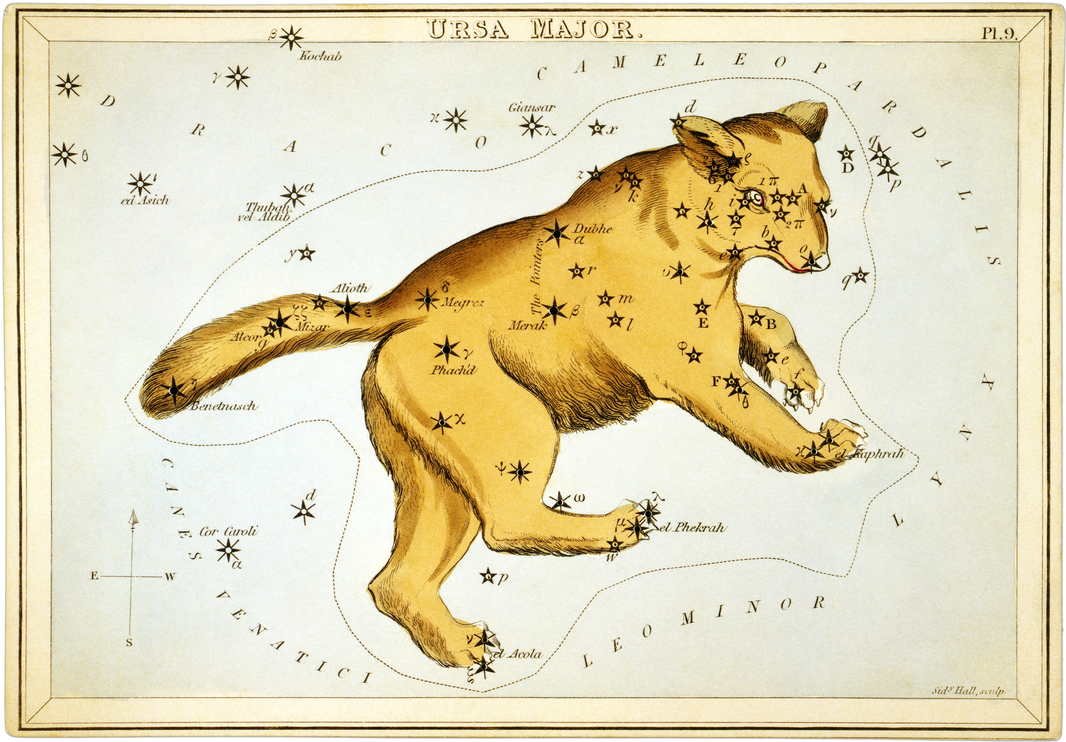 Astronomical chart showing a bear forming the constellation.